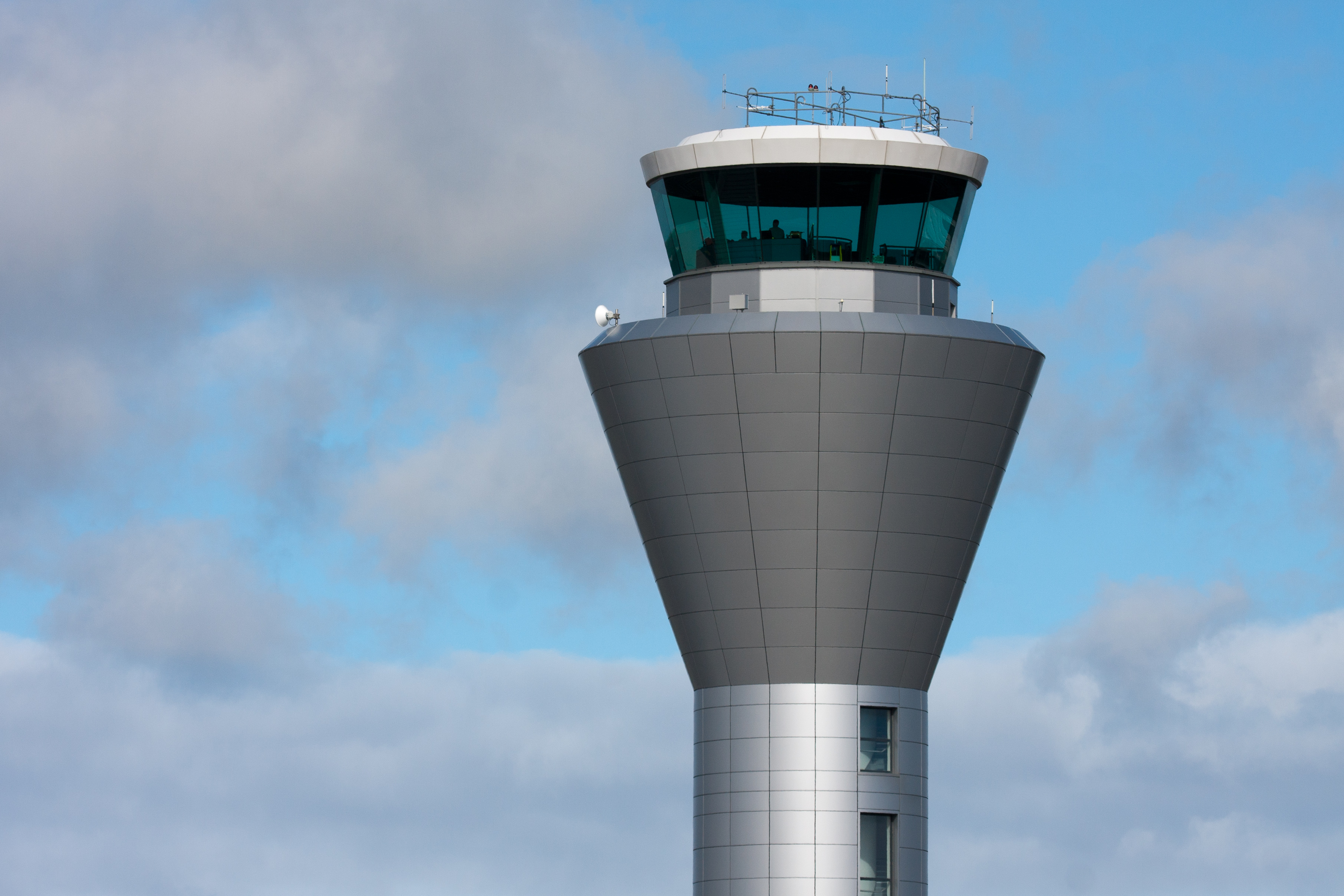 The control tower at Jersey Airport in 2012.